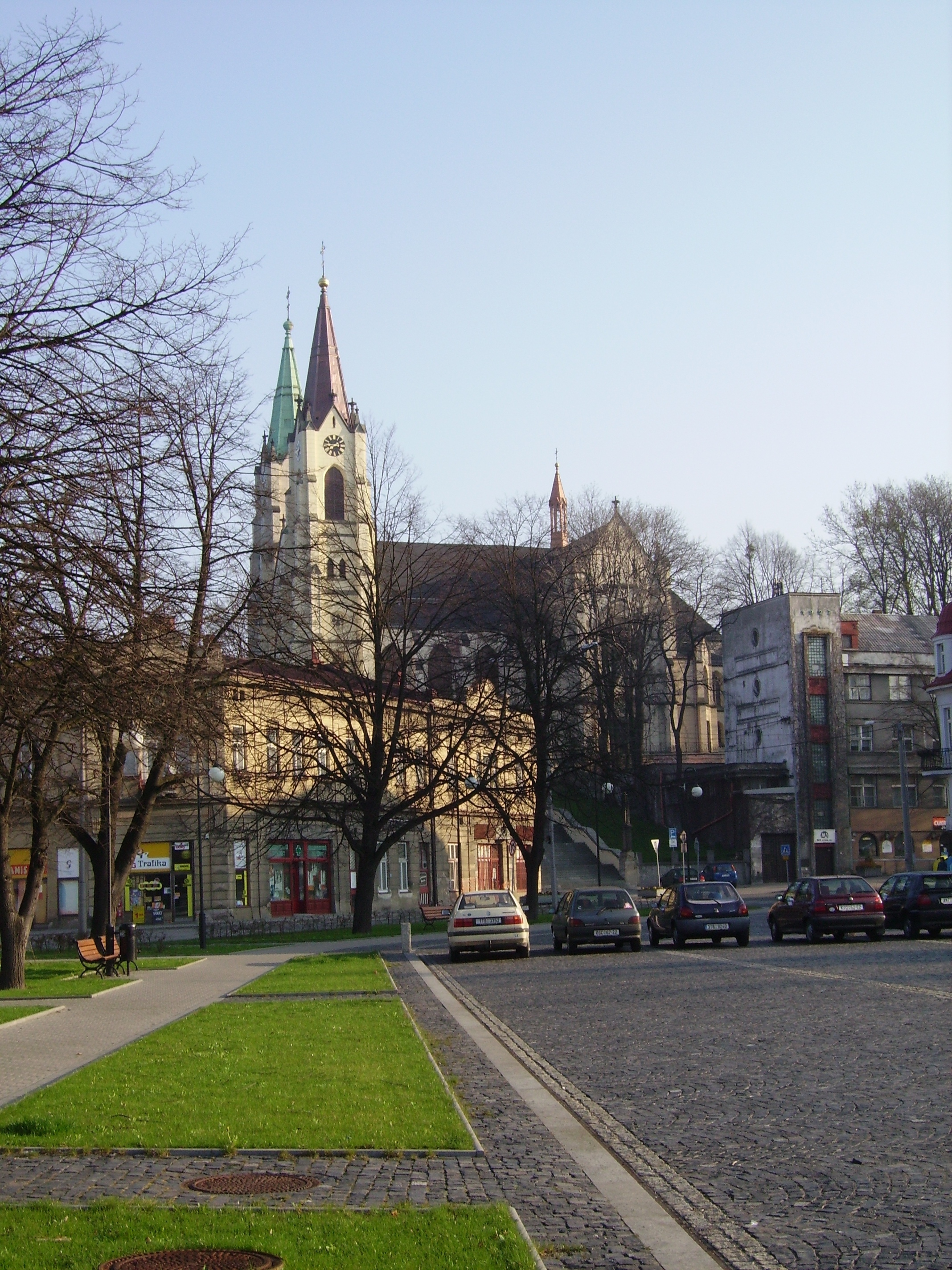 Birth of the Virgin Mary Church in Orlová (Orłowa), Czech Republic